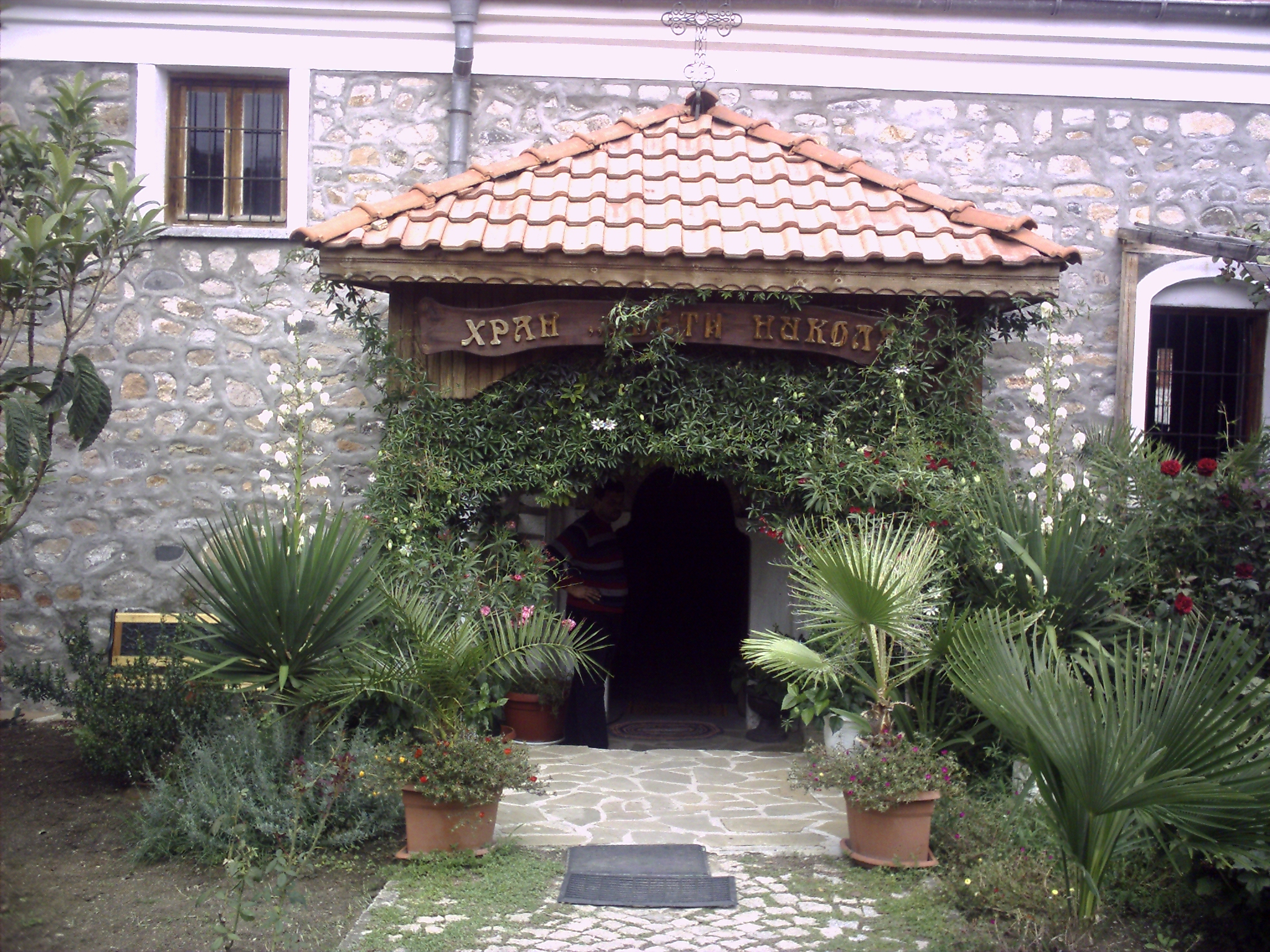 Chapel "Saint Nikola" in village Chernomoretz, Bulgaria